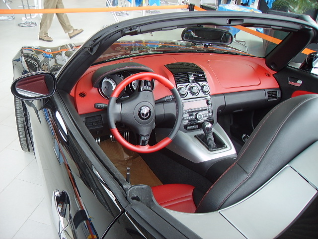 The new Opel GT